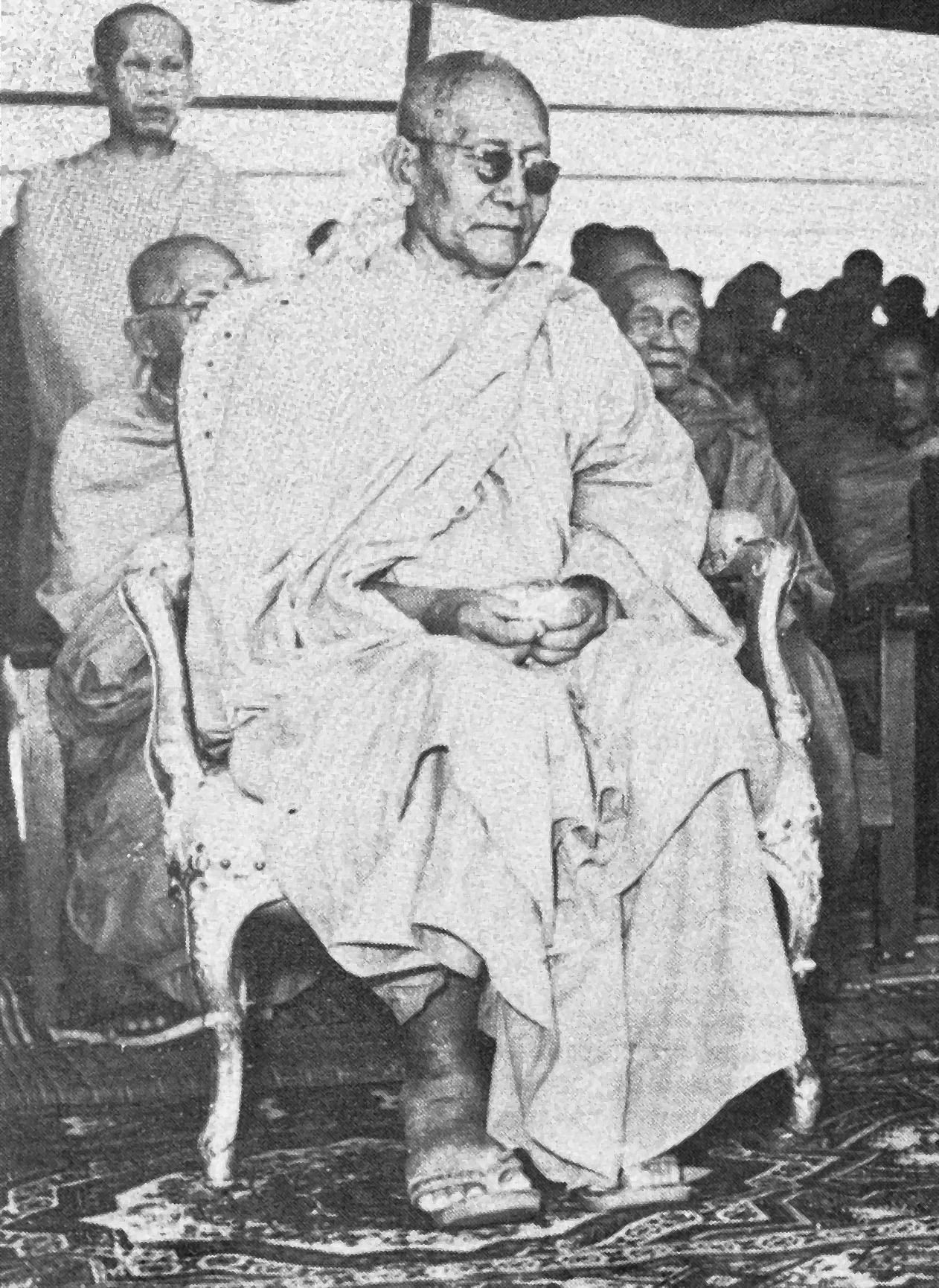 Jhotañano Chuon Nath (Khmer: ជួន ណាត; 1883-1969) Mahanikaya Supreme Patriarch of Cambodia